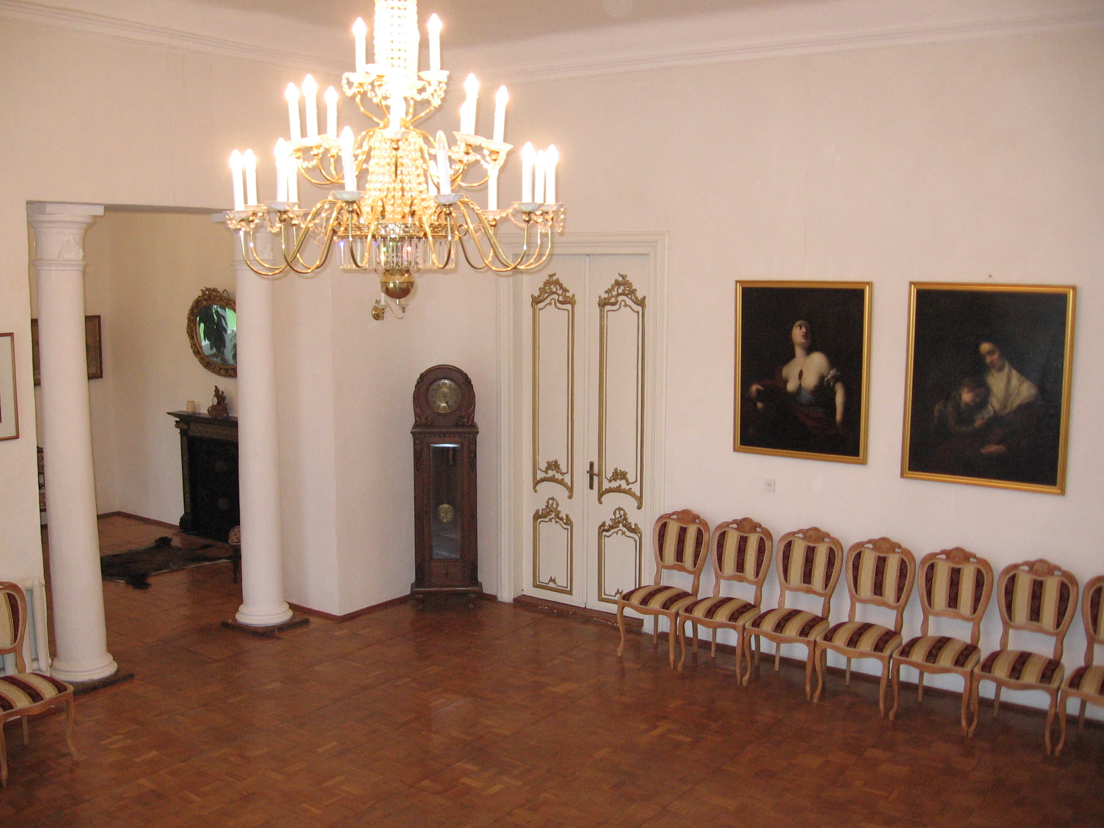 This is a photo of Belarusian heritage monument. Reference number: 112Г000585 ( WLM)